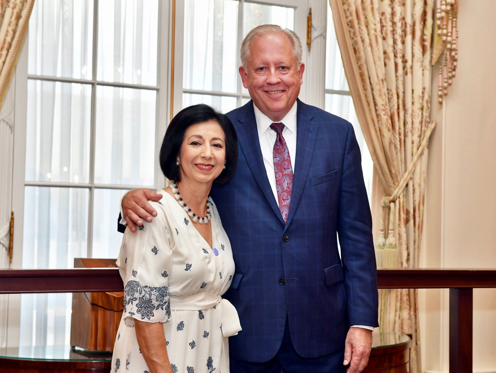 Under Secretary of State for Political Affairs Thomas Shannon poses for a photo with his wife Guisela Shannon at his retirement ceremony at the U.S. Department of State in Washington, D.C., on June 4, 2018. [State Department photo/ Public Domain]